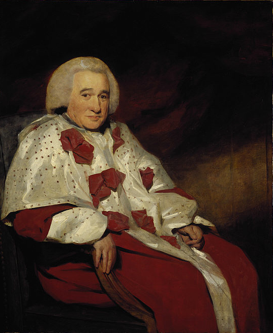 Portrait of Robert Macqueen, Lord Braxfield (1722-1799)